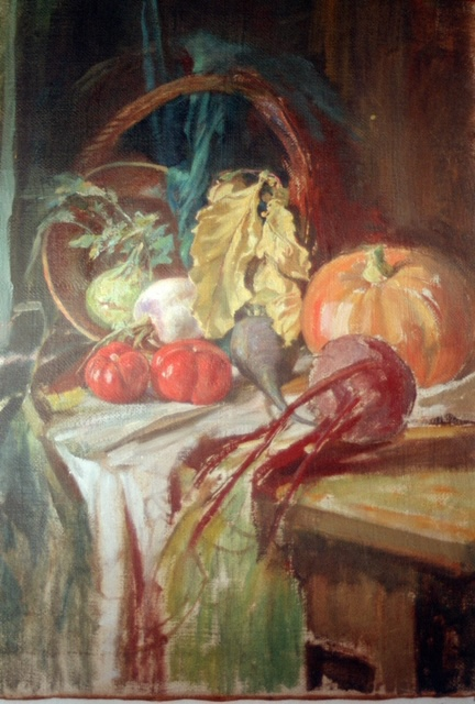 last paintig of Paul Poetzsch 1936